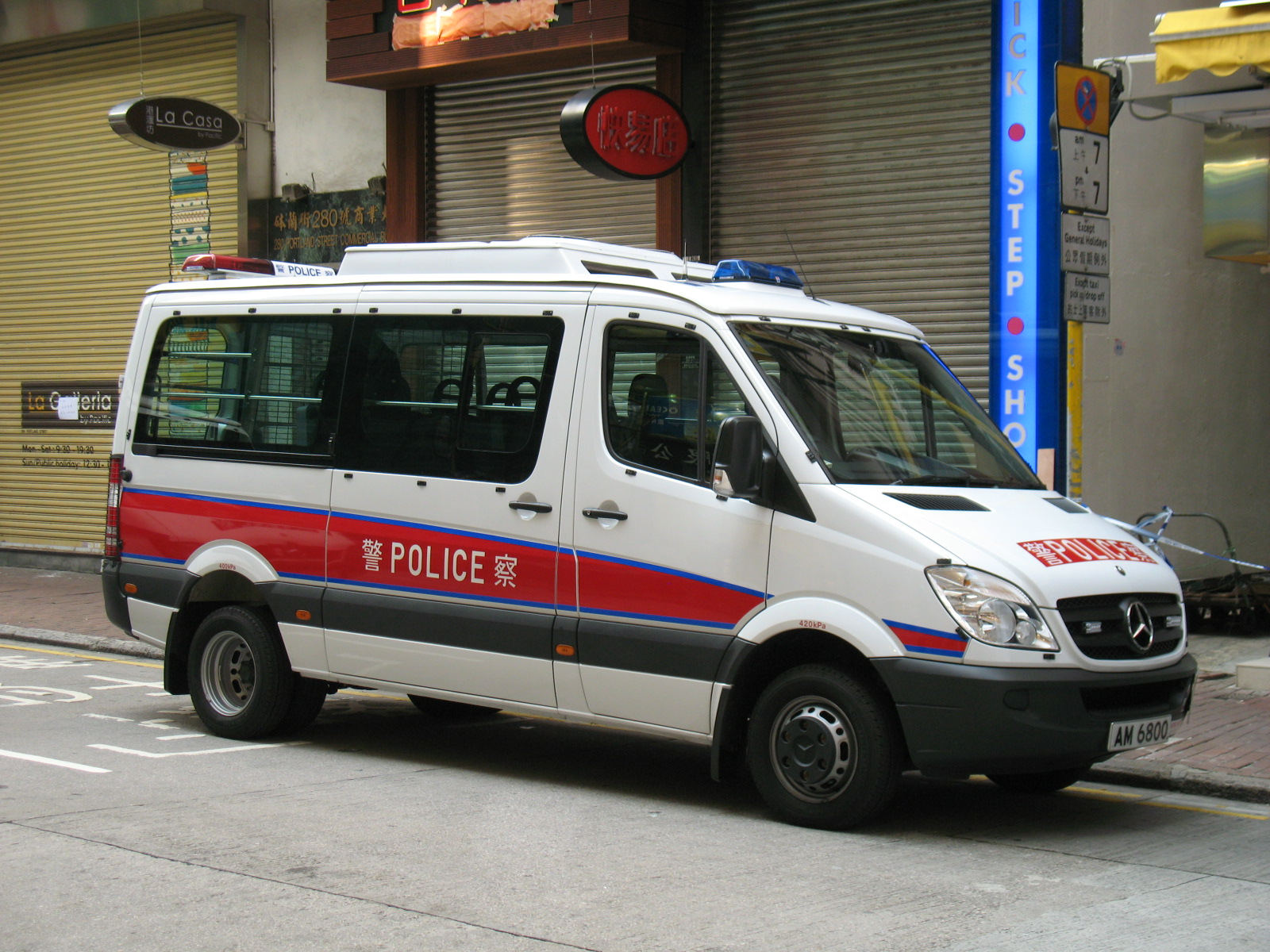 Mercedes-Benz Sprinter 518CDI Police Car for Hong Kong Police Force. 中文（香港）: 香港警方最新型號的巡邏車，是一輛平治凌特518CDI型警察巡邏車。